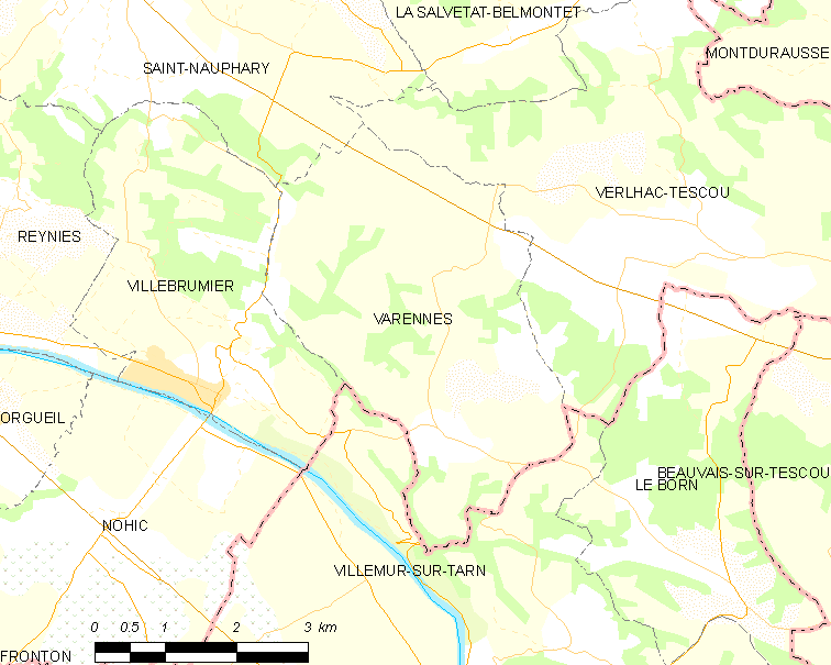 Map of French municipality Varennes